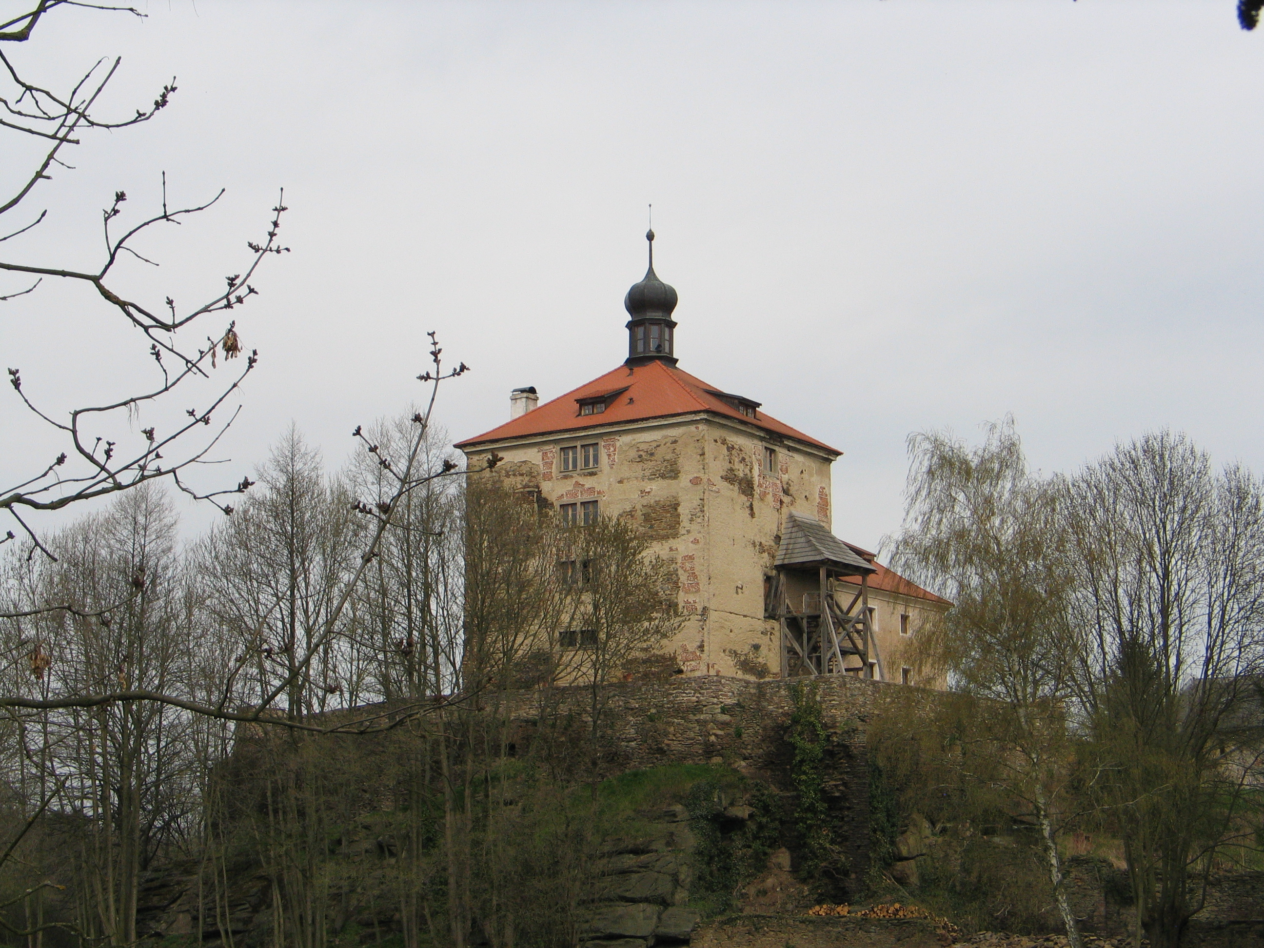 Heber